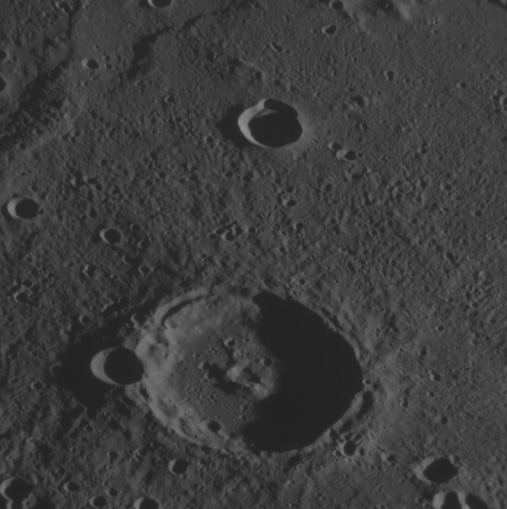 Oblique view of Amru Al-Qays crater on Mercury. MESSENGER Narrow Angle Camera image. North is at top. Image width is about 100 km. Emission Angle: 44.5 Incidence Angle: 83.6 Latitude: 13.2 Longitude: 184.1 Phase Angle: 89.9